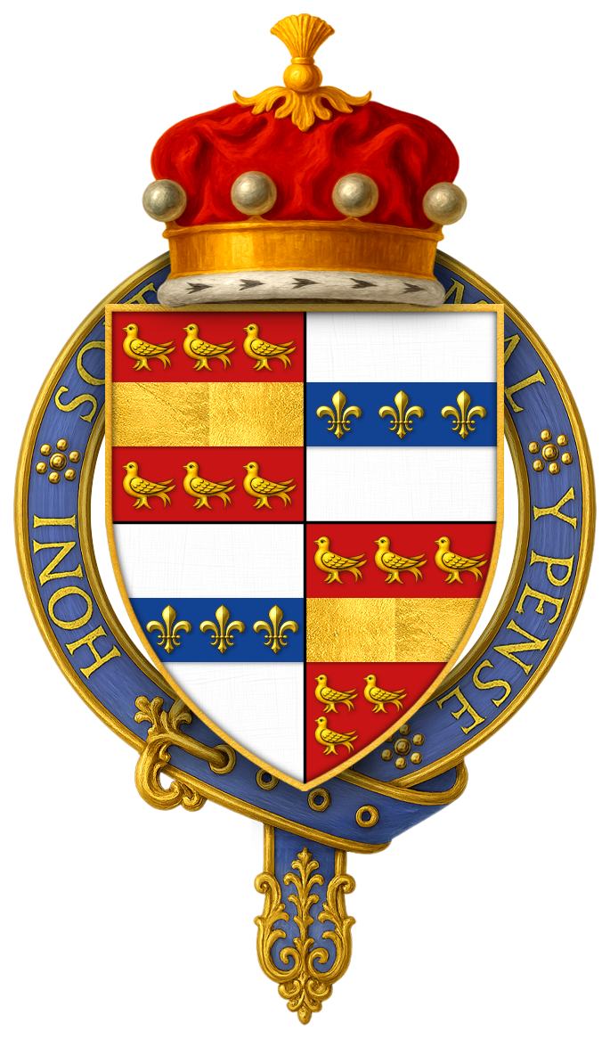 Sir John Beauchamp, Lord Beauchamp of Powyk, KG HOPE, W. H. St. John, The Stall Plates of the Knights of the Order of the Garter 1348 – 1485: A Series of Ninety Full-Sized Coloured Facsimiles with Descriptive Notes and Historical Introductions, Westminster: Archibald Constable and Company LTD, 1901. “ Sir John Beauchamp, Lord Beauchamp of Powyk... arms quarterly: 1 and 4, gules a fess and six martlets gold (for Beauchamp of Powyk); 2 and 3, silver on a fess azure three fleur-de-lis gold (for Ufflete)... ” The Stall plate remains intact within the eights stall, on the north side of the chapel.